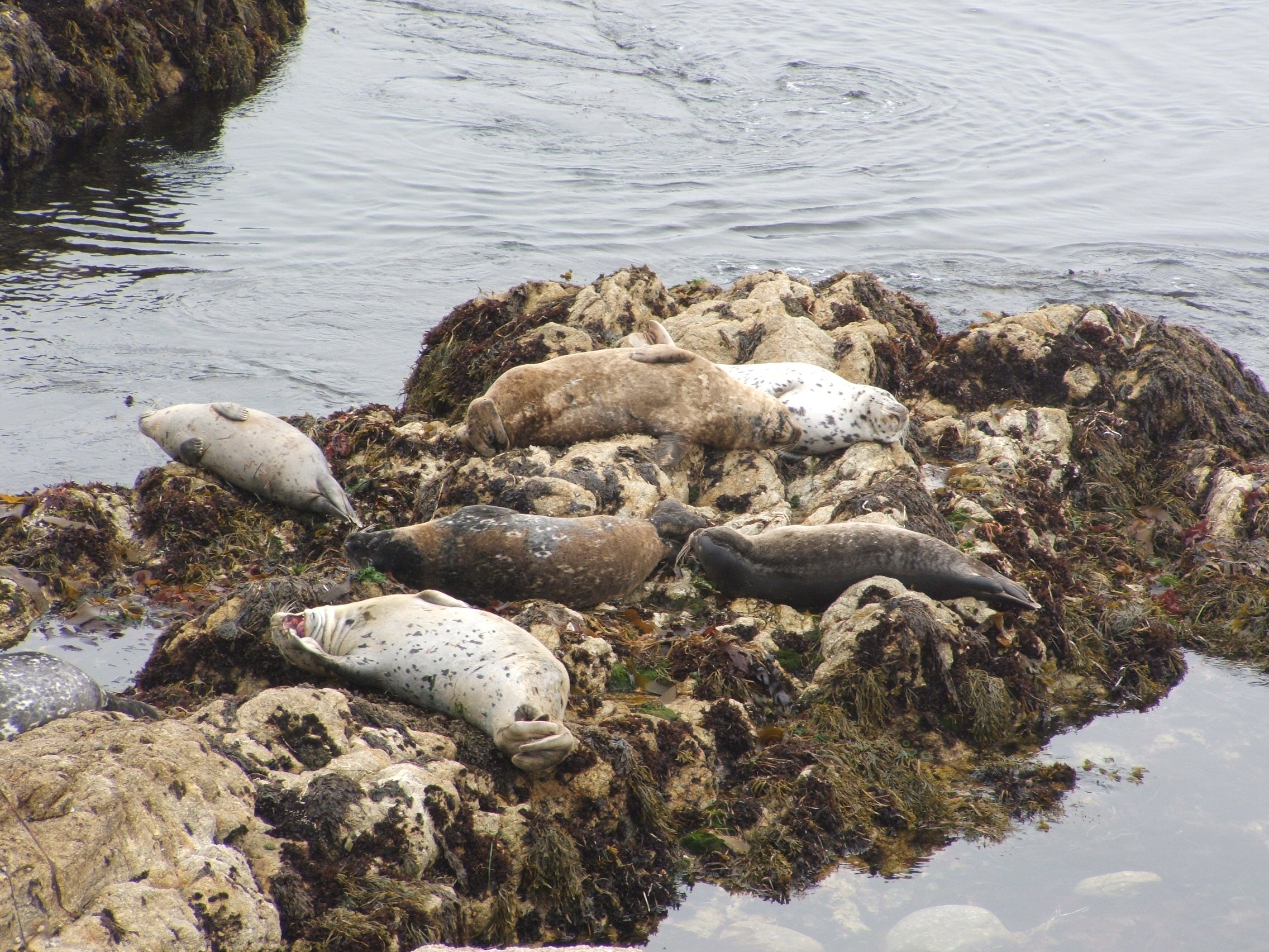 Cypress Point Lookout, 17-Mile Drive